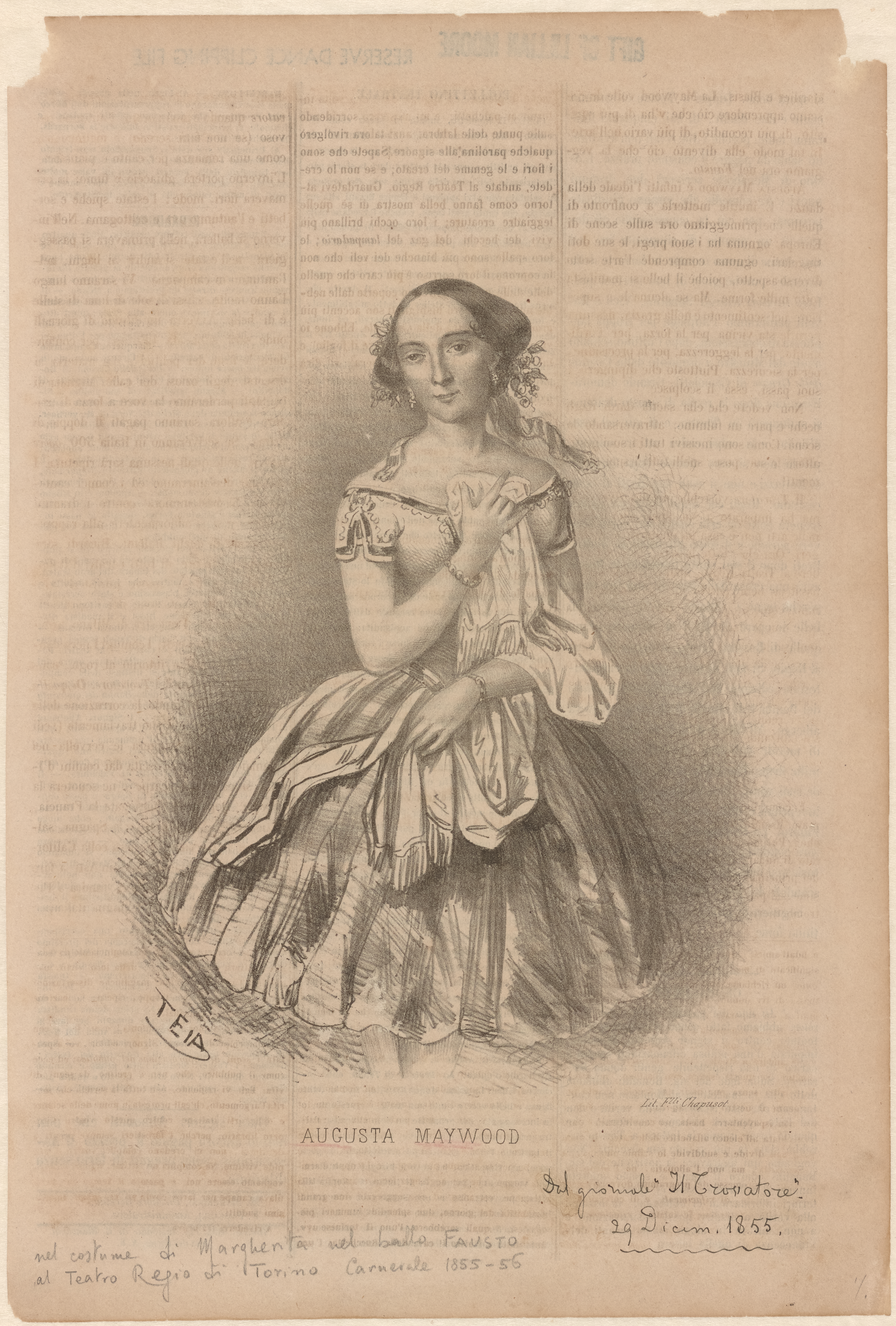 Three-quarter length to front; Maywood clasping scarf or shawl to bosom; flowers and a ribbon in hair.